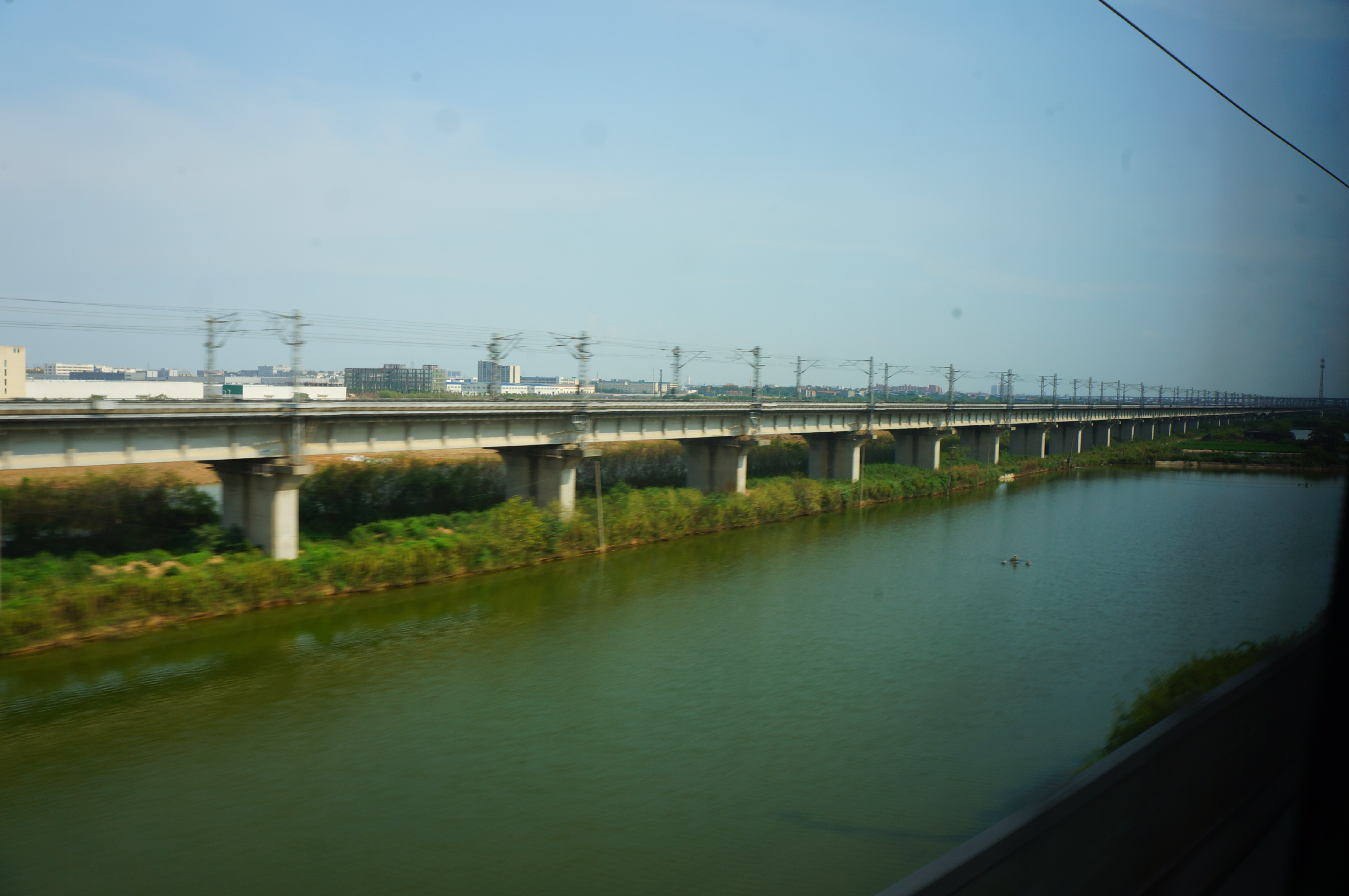 201608 Xiangtang–Putian Railway in Nanchang